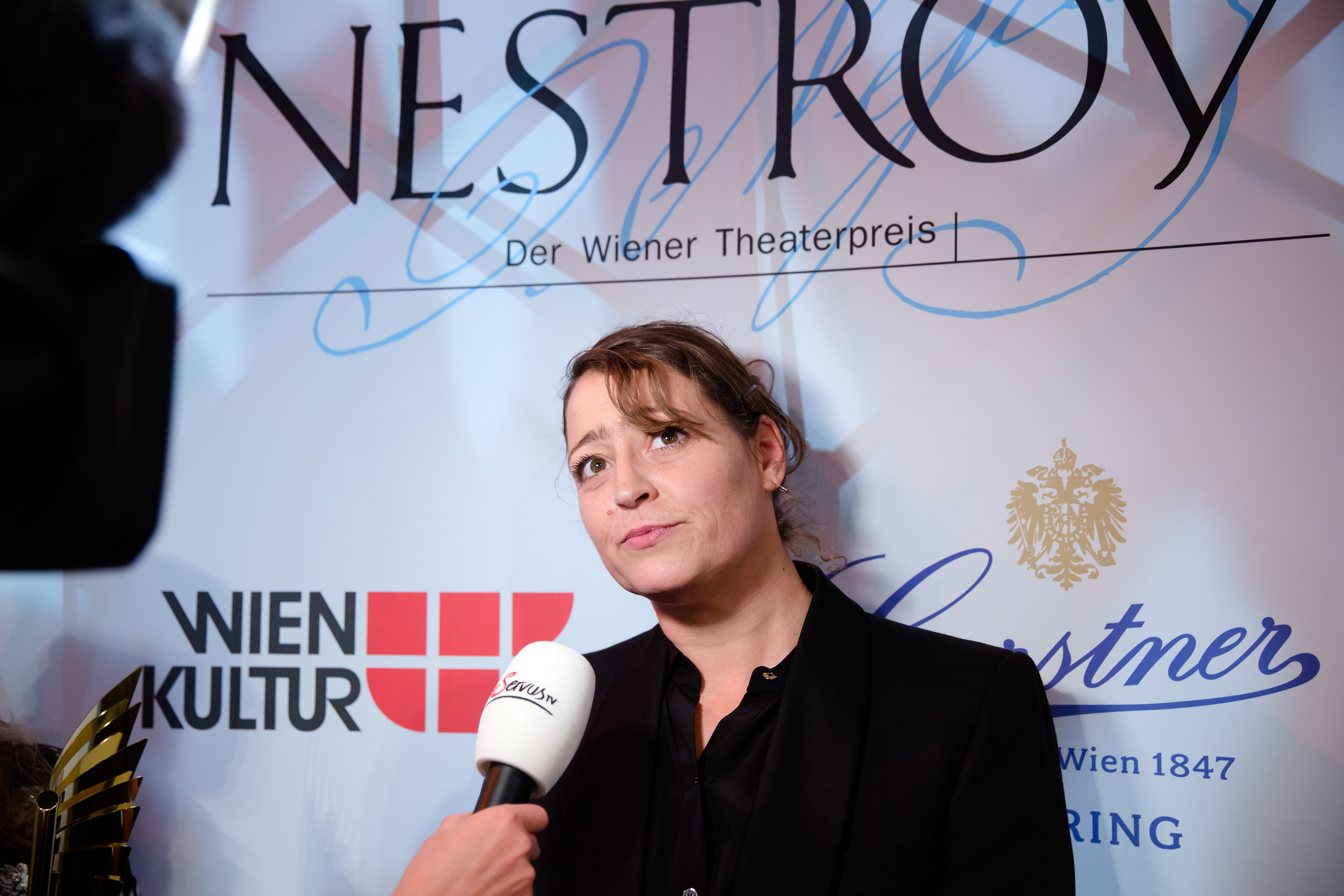 Christine Eder at the Nestroy Theatre Awards 2015 (Ronacher, Vienna, Austria).